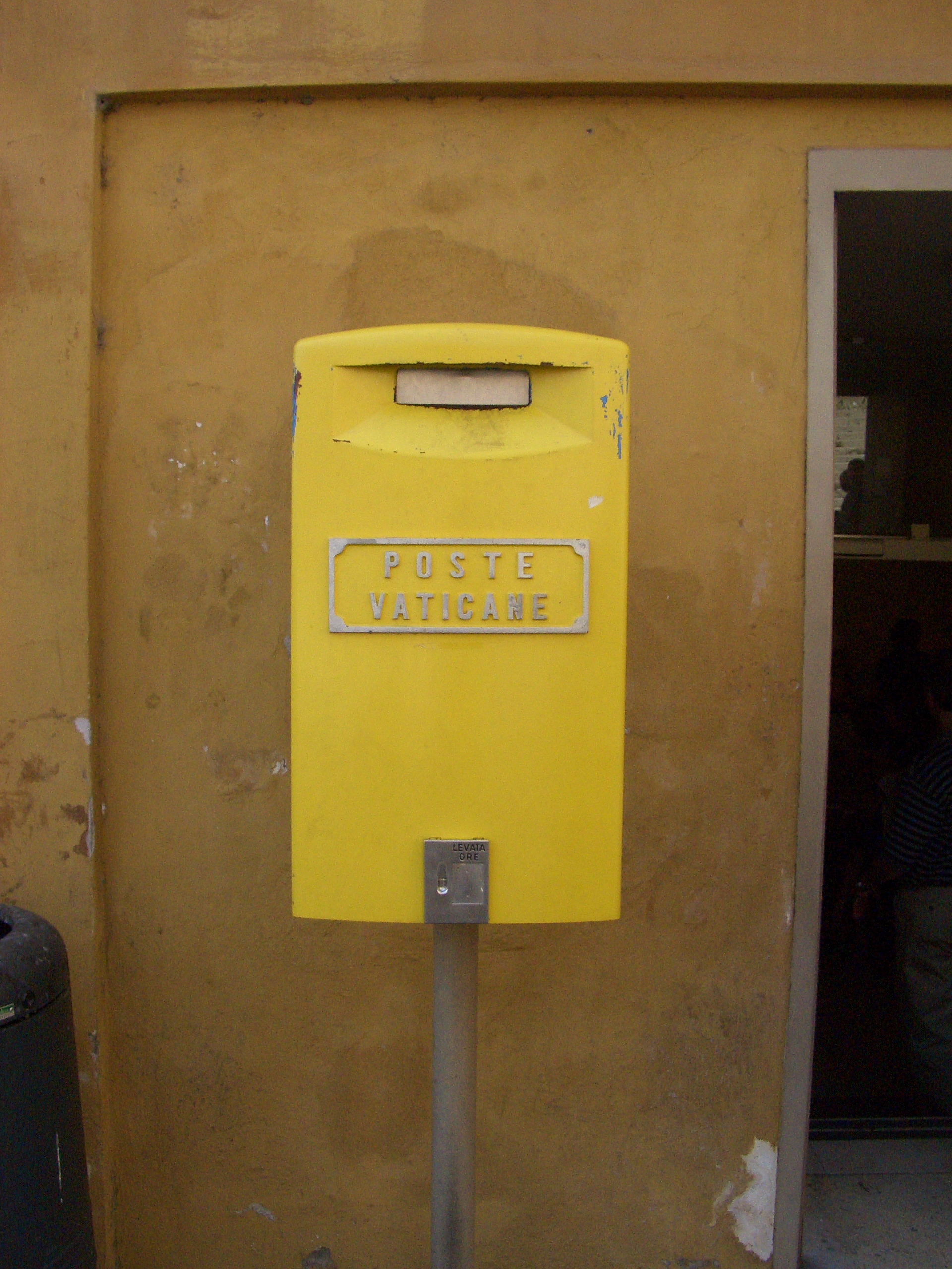 A yellow Vatican letterbox